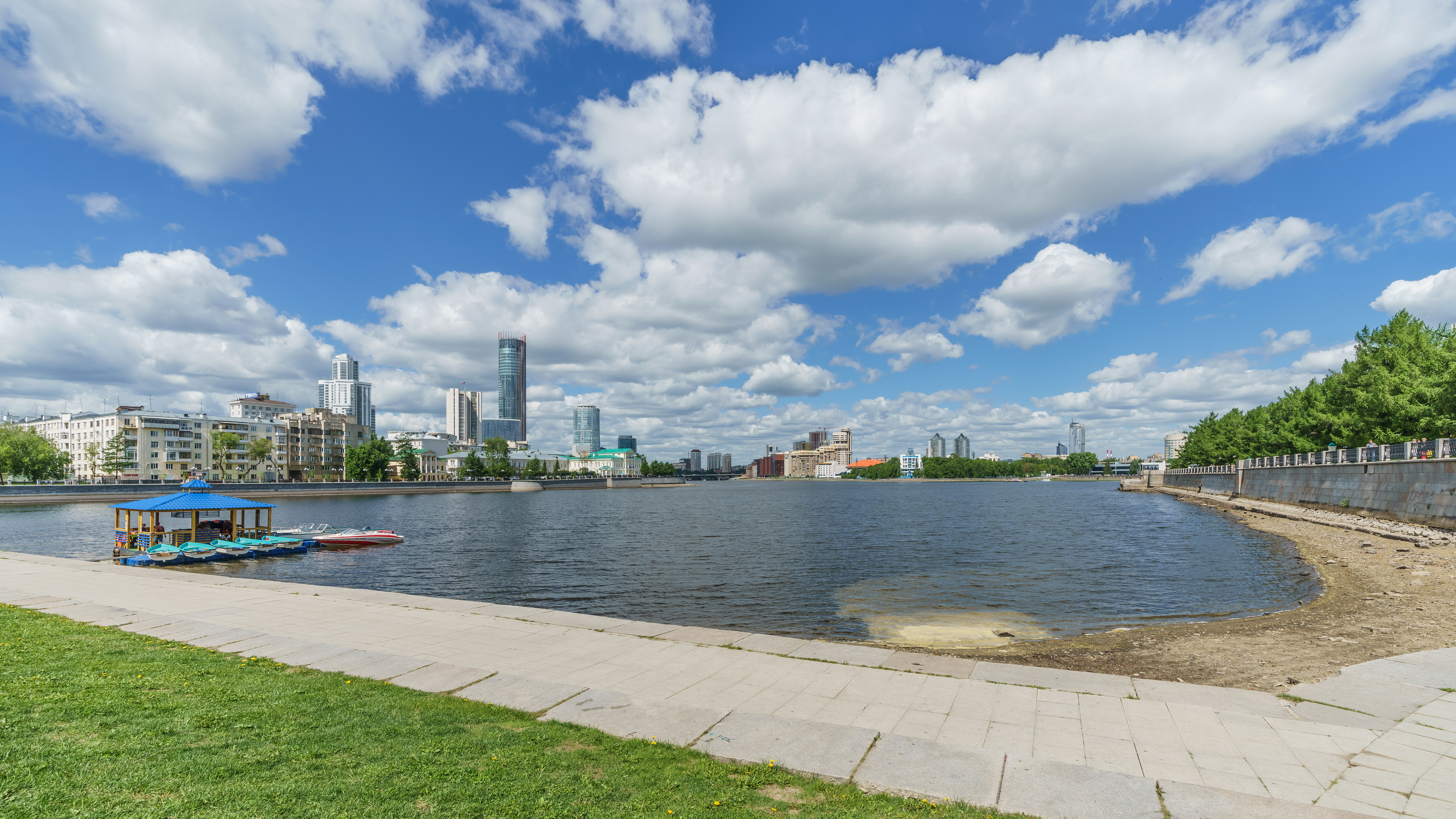 City Pond in Ekaterinburg, Russia